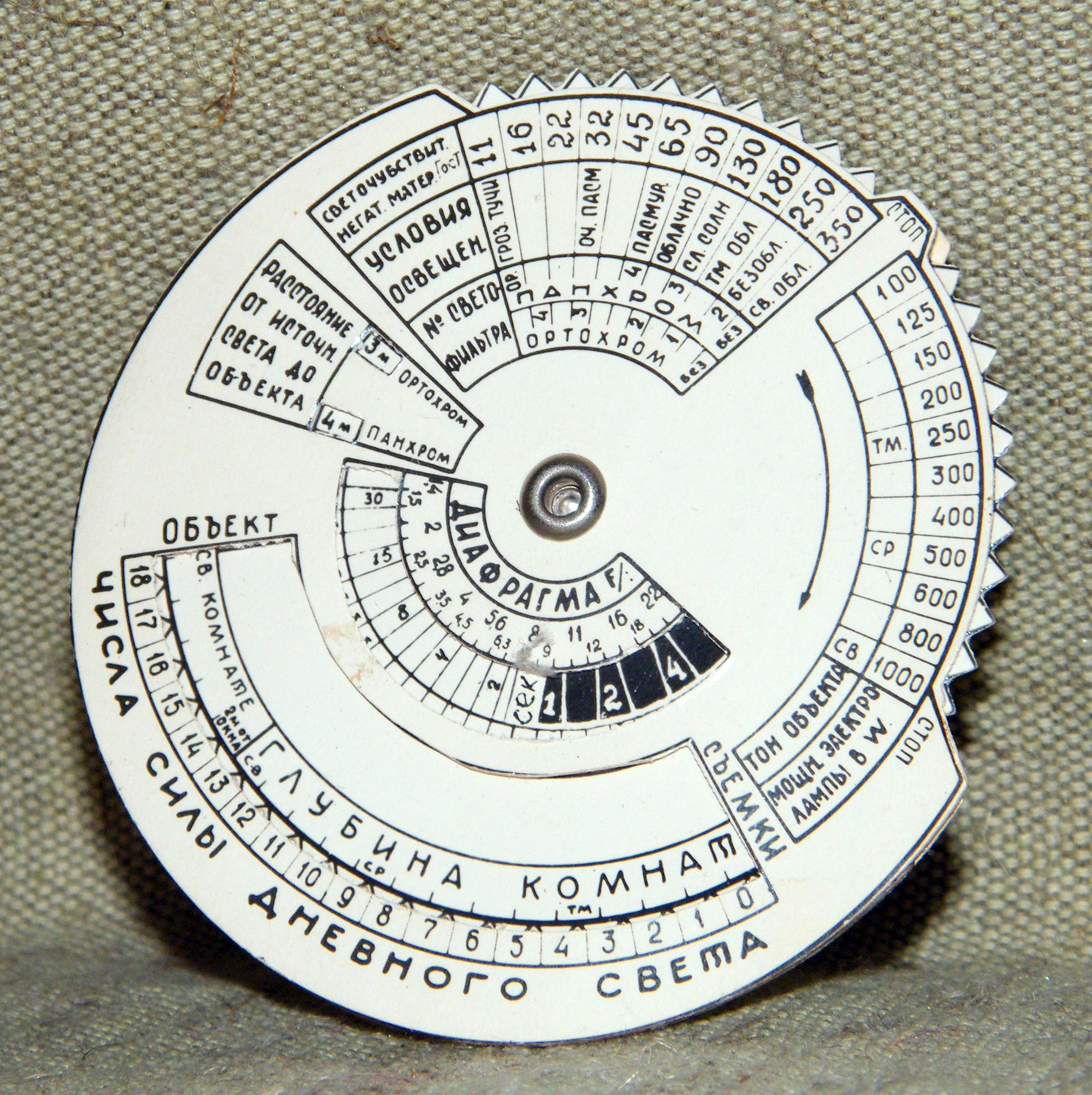 Light meters